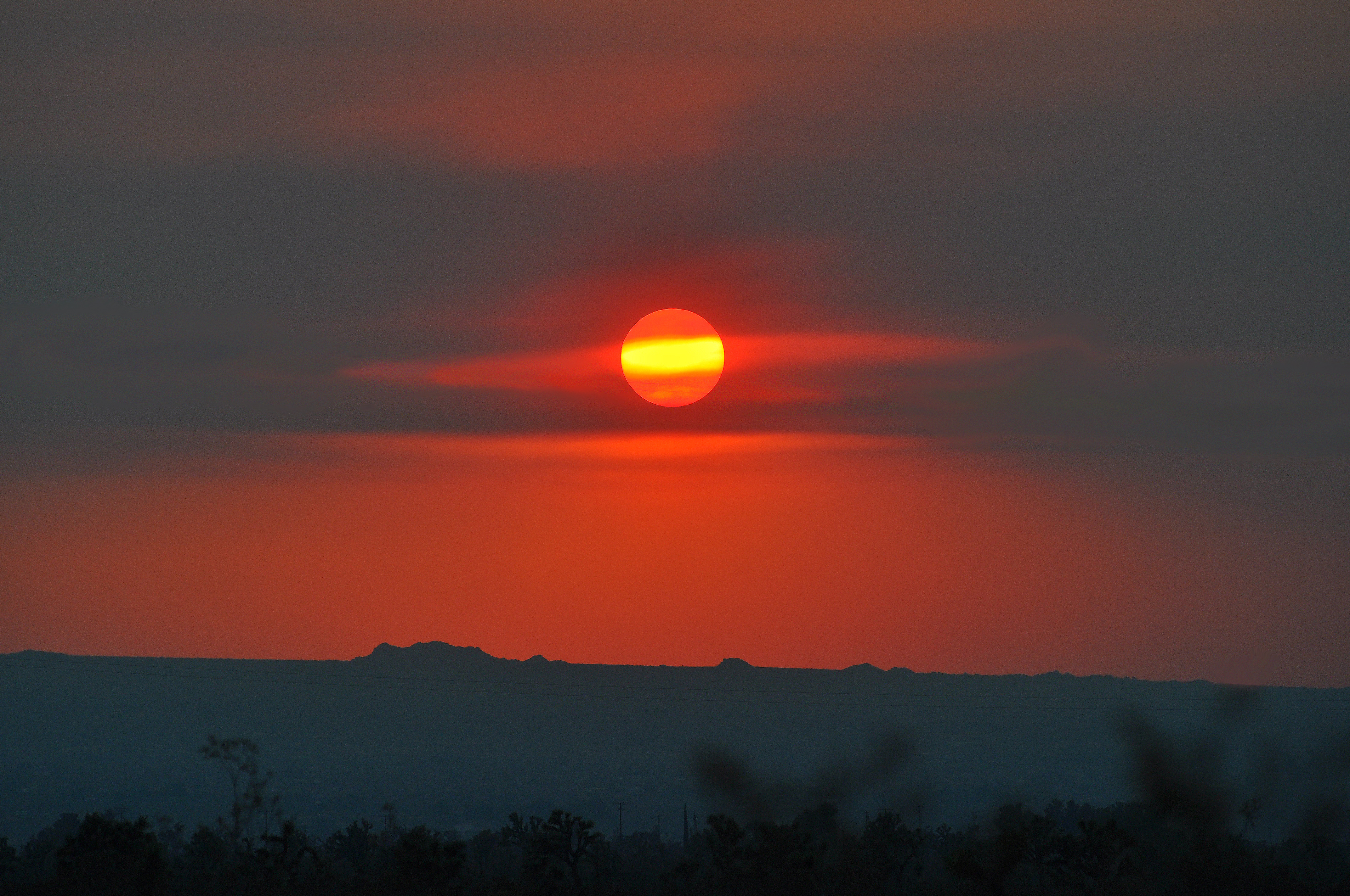 A break in the clouds makes a brilliant stripe on the Summer Solstice Sun 06-20-2116